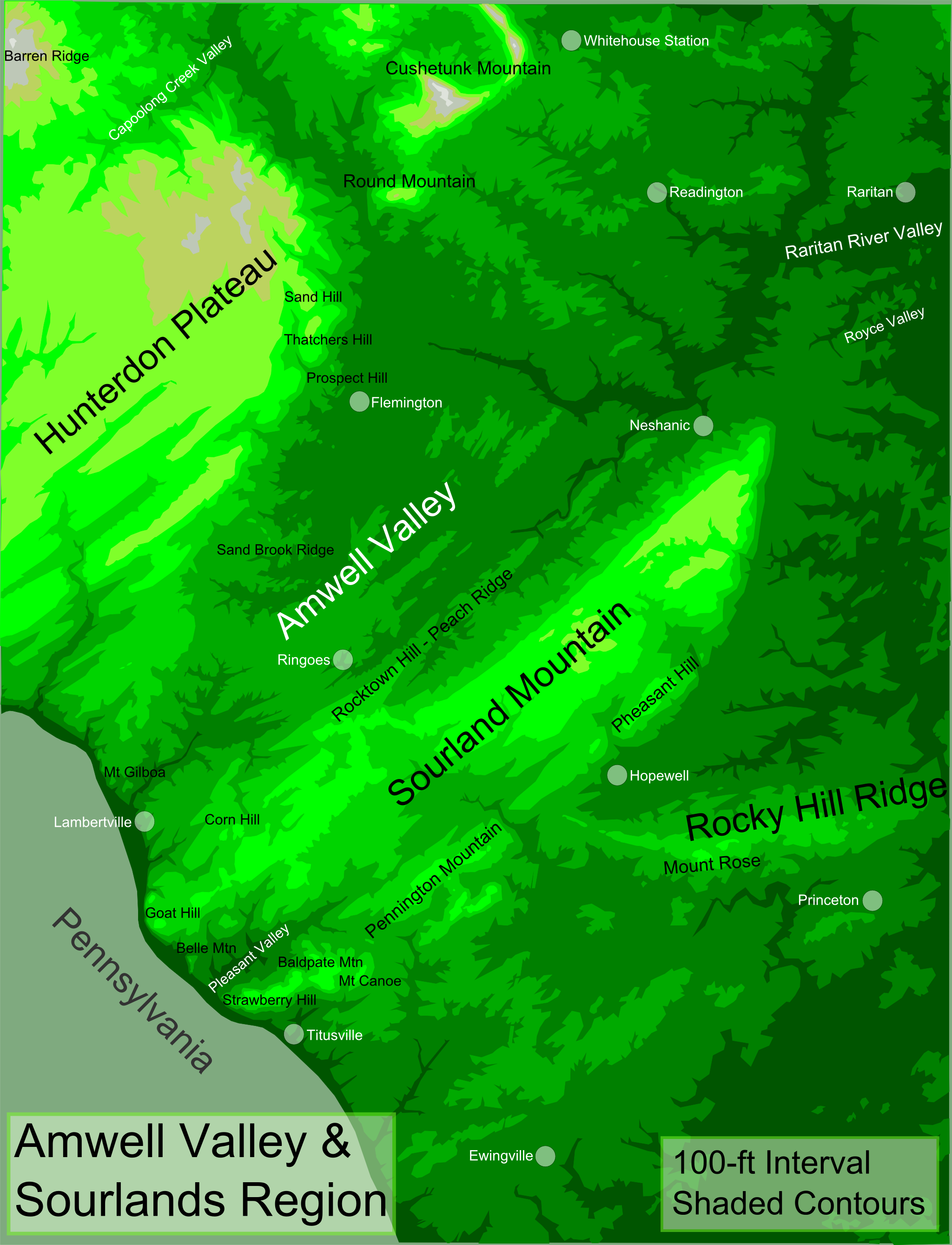 Topographic map of Greater Amwell and The Sourlands Region of New Jersey — featuring the Sourland Mountain ridge. The map uses shaded contours at 100-ft intervals to depict topography. Legend Darkest Green = 0-100 ft Dark Green = 100-200 ft Medium Green = 200-300 ft Light Green = 300-400 ft Lightest Green = 400-500 ft Yellow-Green = 500-600 ft Beige = 600-700 ft Gray = 700-800 ft Light Gray = 800-900 ft White dots = centers of villages/towns. Map is oriented north-up and is ~19.5 miles east to west. Created by tiling nine topographic maps of the Amwell Valley-Sourlands Region and tracing contours at 100-ft intervals.